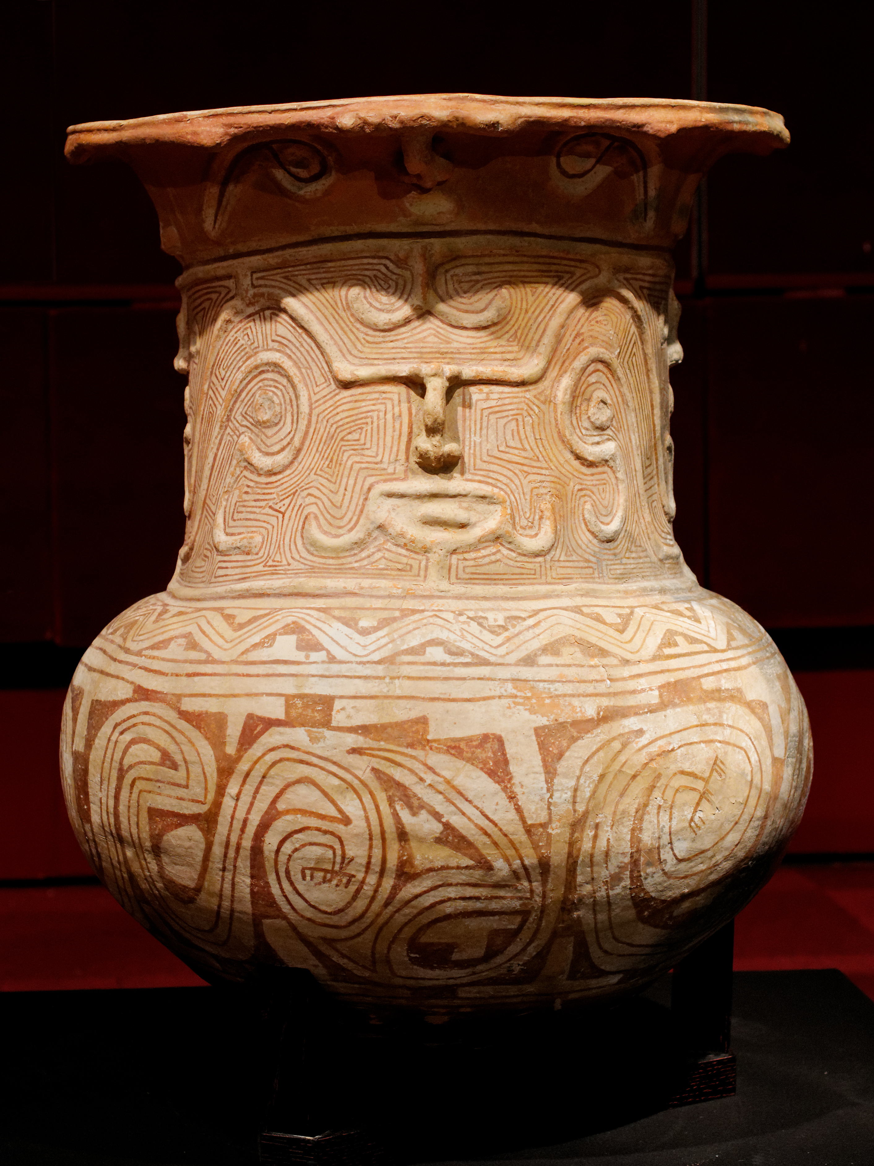 Large funerary vessel. Marajo island, Brazil, Joanes style, Marajoara phase.